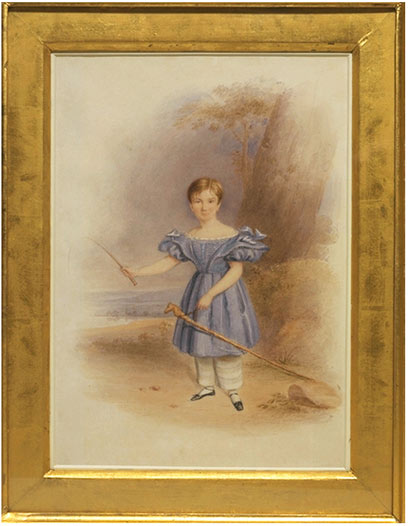 The portrait depicts Alfred Fuller, aged four, wearing a dress in the fashionable style of the period. The dress is blue, with wide robings over puffed sleeves, and the bodice trimmed with braid in a style based on a hussar's uniform. He is bare-headed, and also wears white linen or cotton pantaloons, white hose, and black pumps. He holds a hobby horse (see MISC.523:1-1981) in his left hand and a whip in his right.